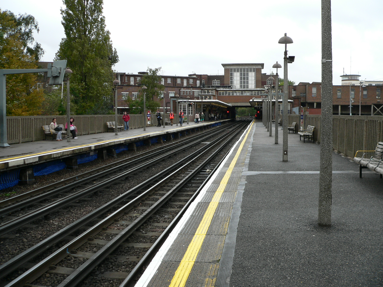 Rayners Lane tube station in Harrow Garden Village in north west London is on the London Underground's Metropolitan and Piccadilly lines. This photograph, taken on 24 October 2005, is the view looking east from the western end of the station.